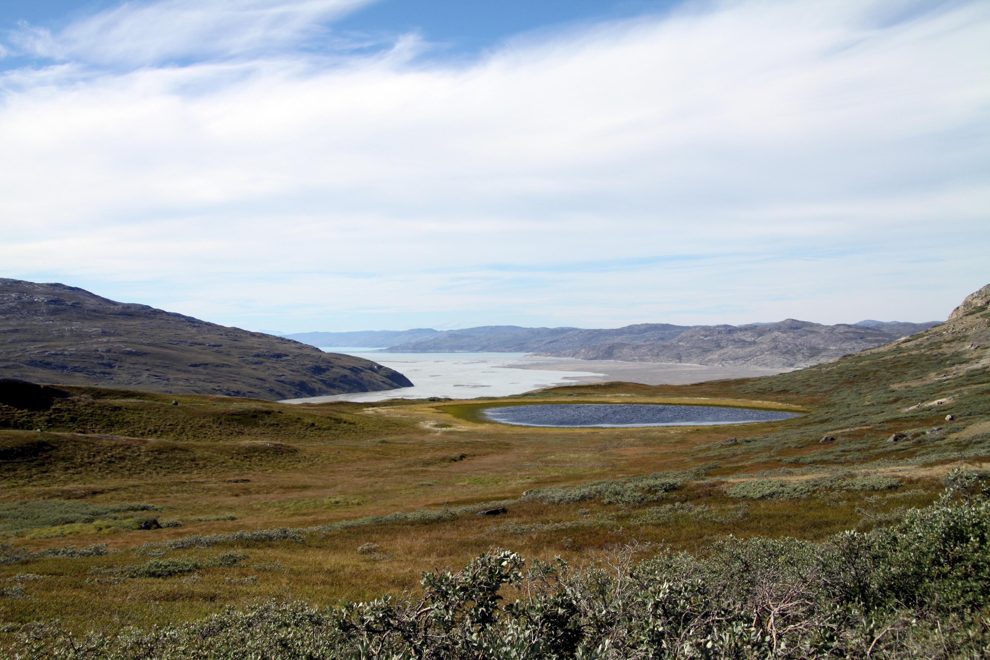 Tacan near Kangerlussuaq, Greenland